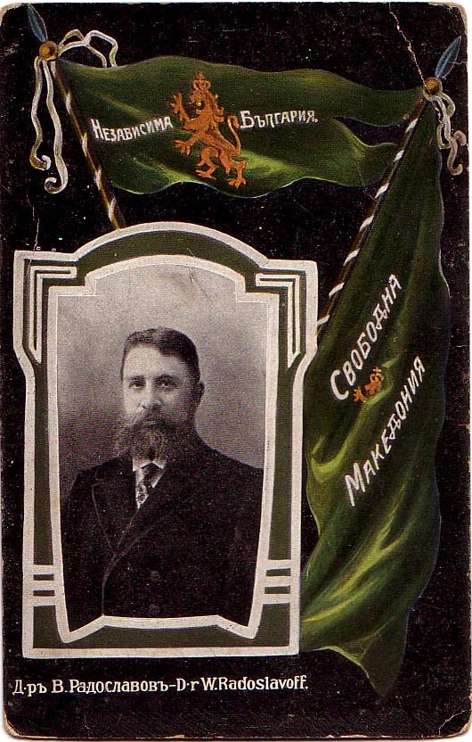 Image of Vasil Khristov Radoslavov (1854 - 1929), Prime Minister of Bulgaria 1886-1887 and 1913-1918. He was Prime Minister during World War I and was very pro-German. This image is a postcard.